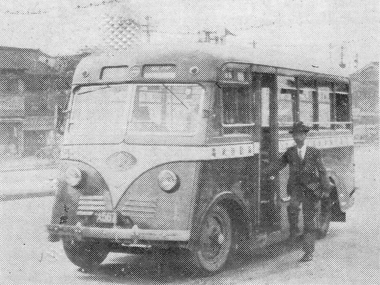 Electrically-powered bus from Osaka Blue Bus. 1937.